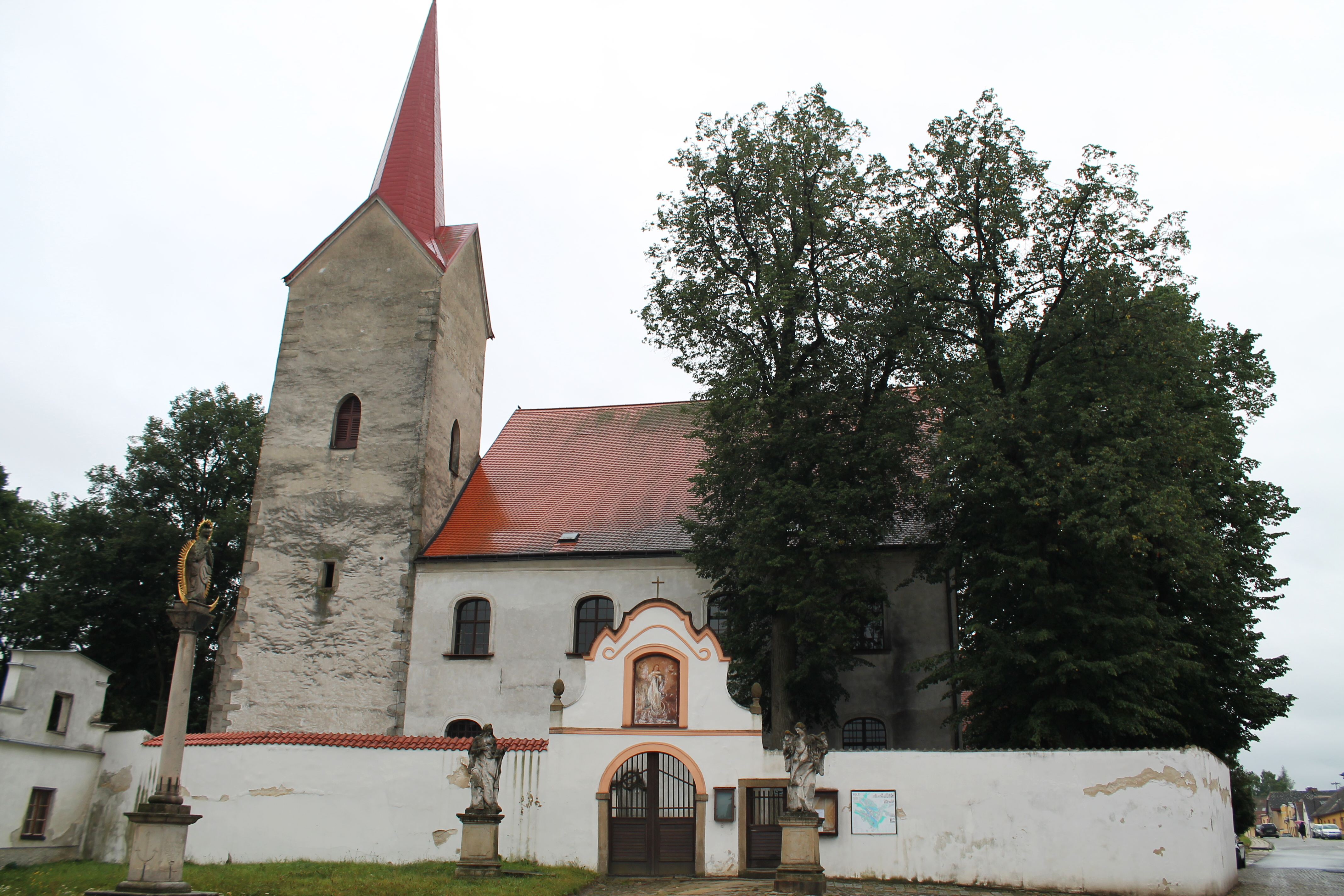 Church of Mother of God, Staré Město, Telč, Jihlava District, Czech Republic